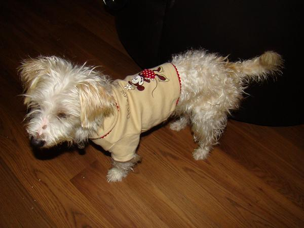 Tina the Terrier Poodle (Terripoo)